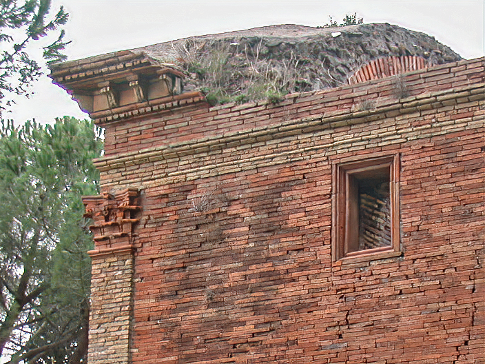 Roman bricks: tomb on via Appia antica in Rome built in brick (opera laterizia) and with different coloured bricks and decorations in bricks. Personal photo (march 2002) by MM in it.wiki